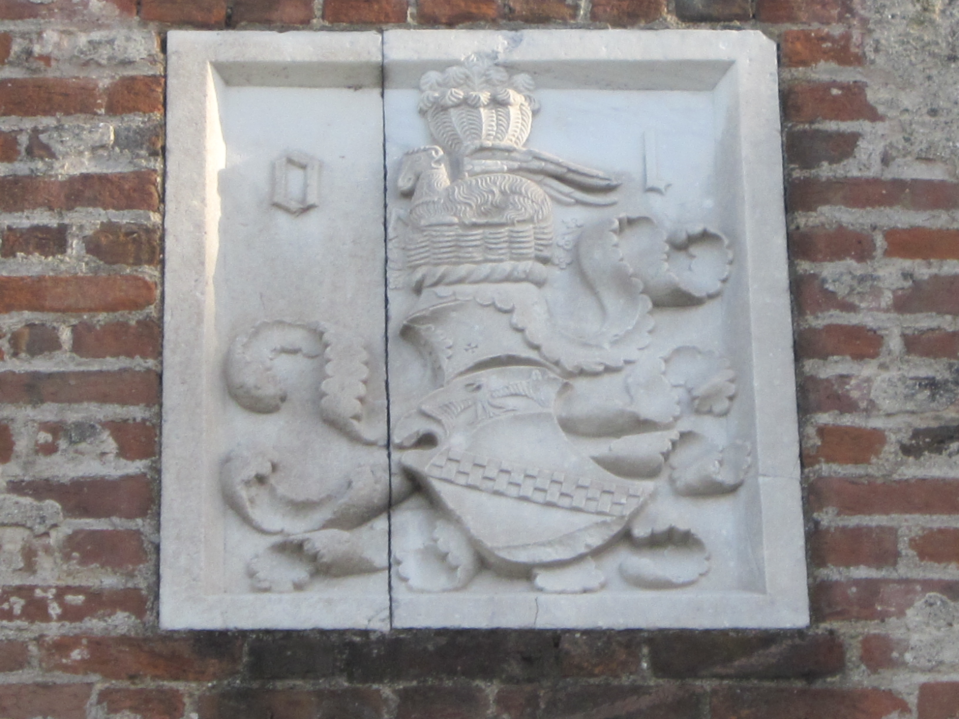 St. George's castle (in Legnano, Italy) - logo on the gatehouse